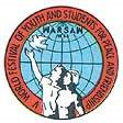 Logo of 5th World Festival of Youth and Students 1955 in Warsaw